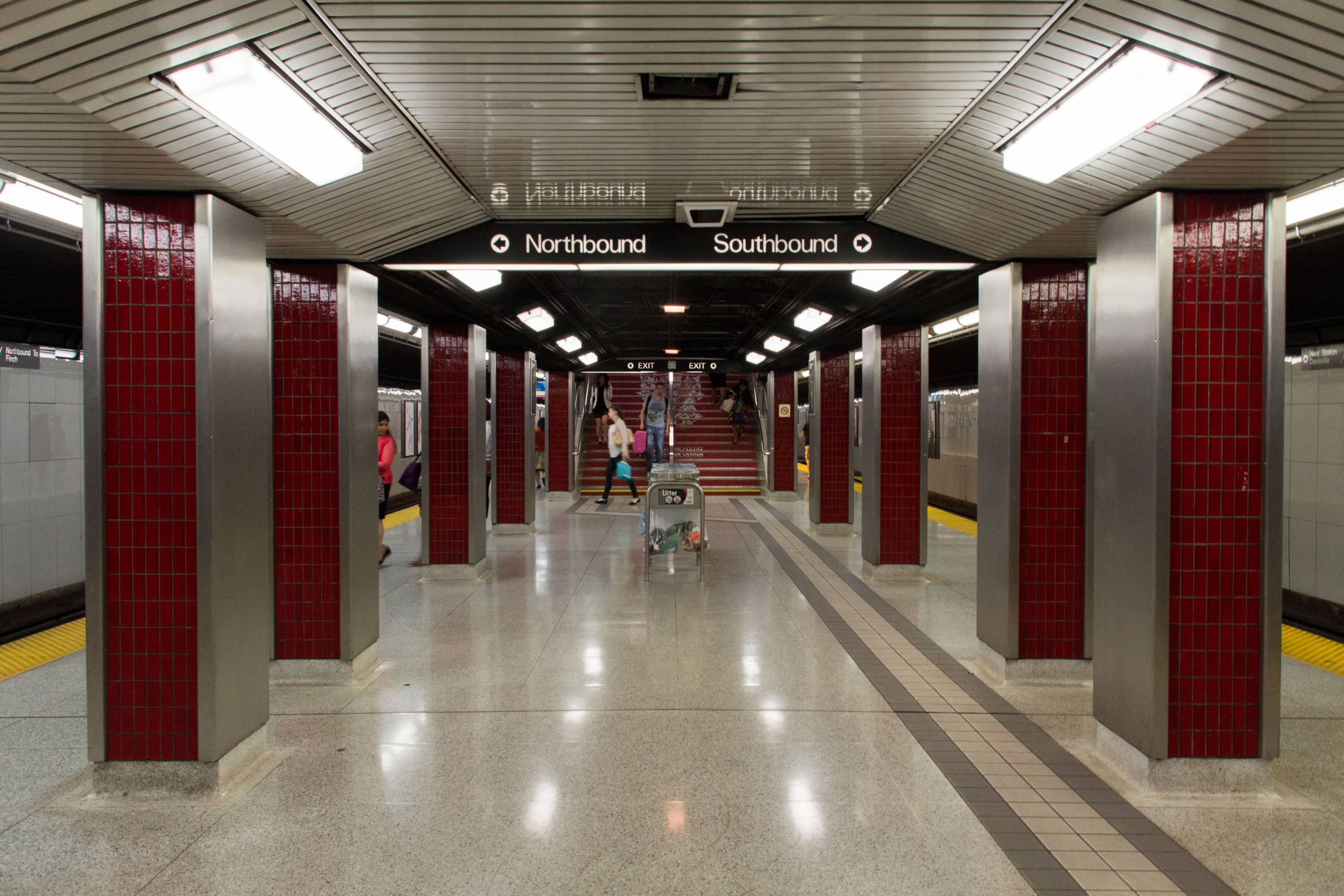 Eglinton Station Platform